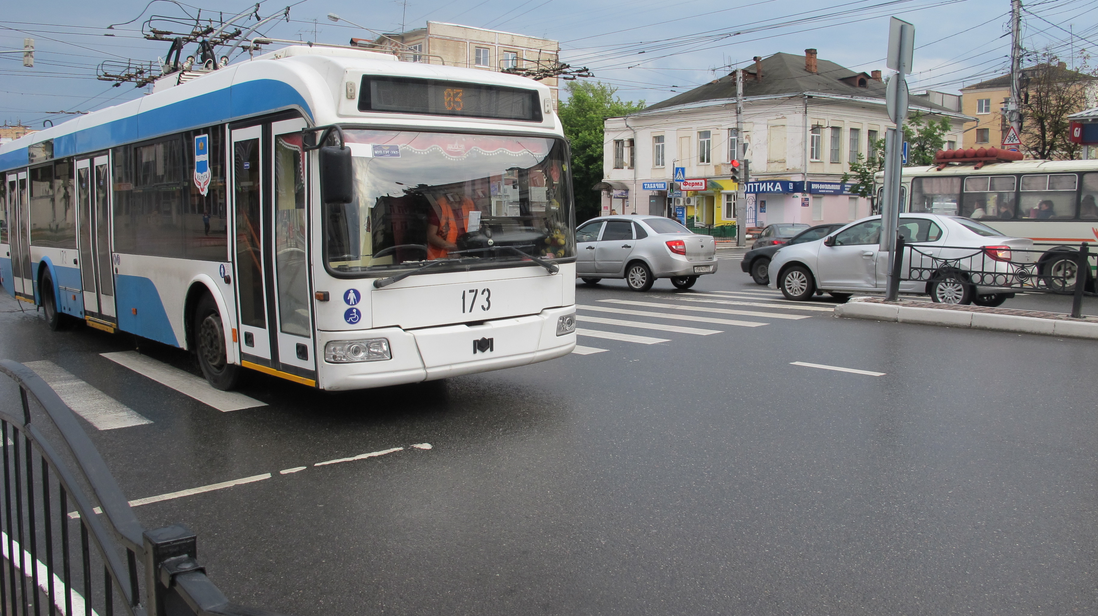 Wikiexpedition to Kaluga 2016-06-11.